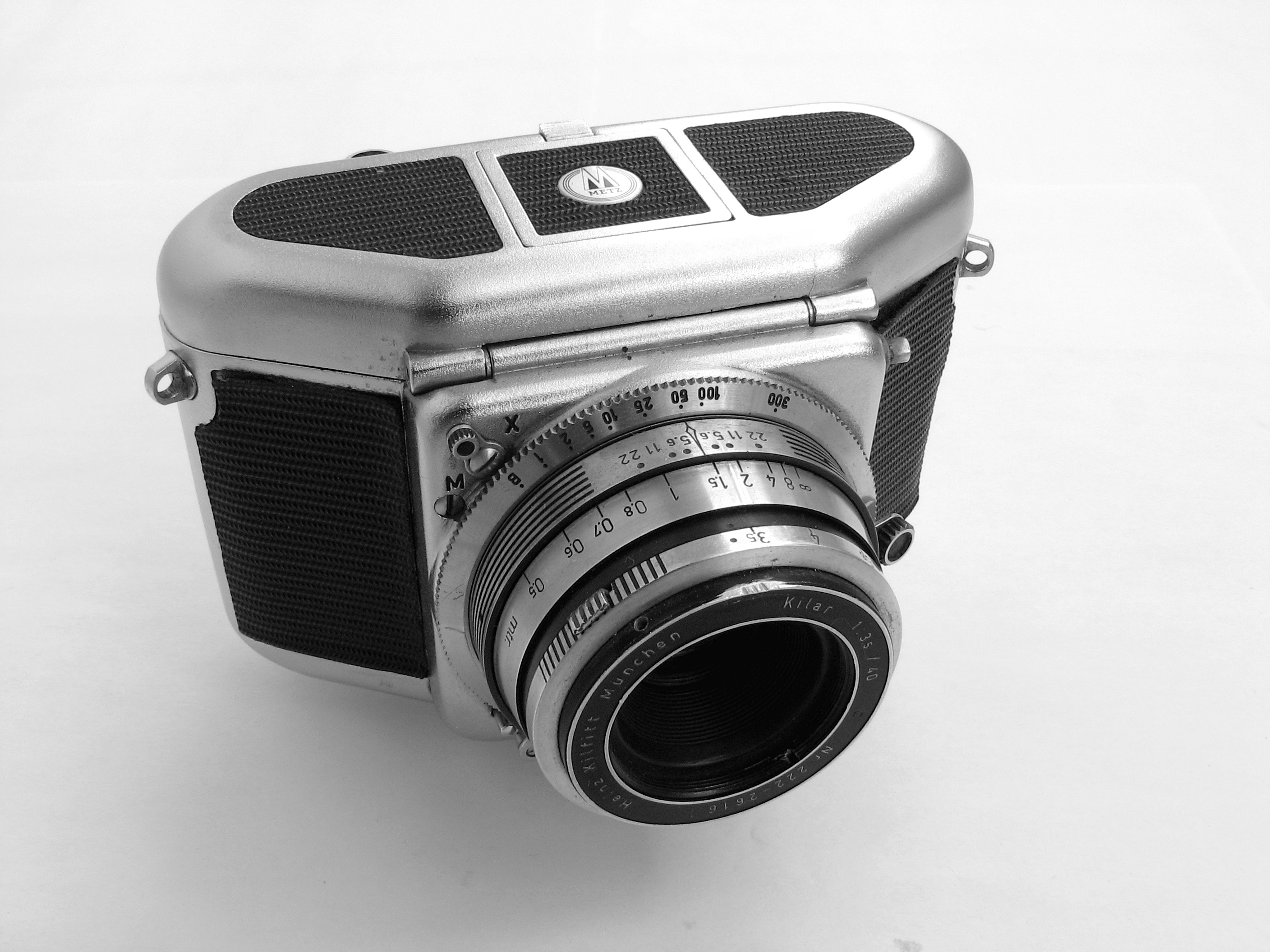 Mecaflex SLR, circa 1953-1958 [1]. Designed by Heinz Kilfitt.